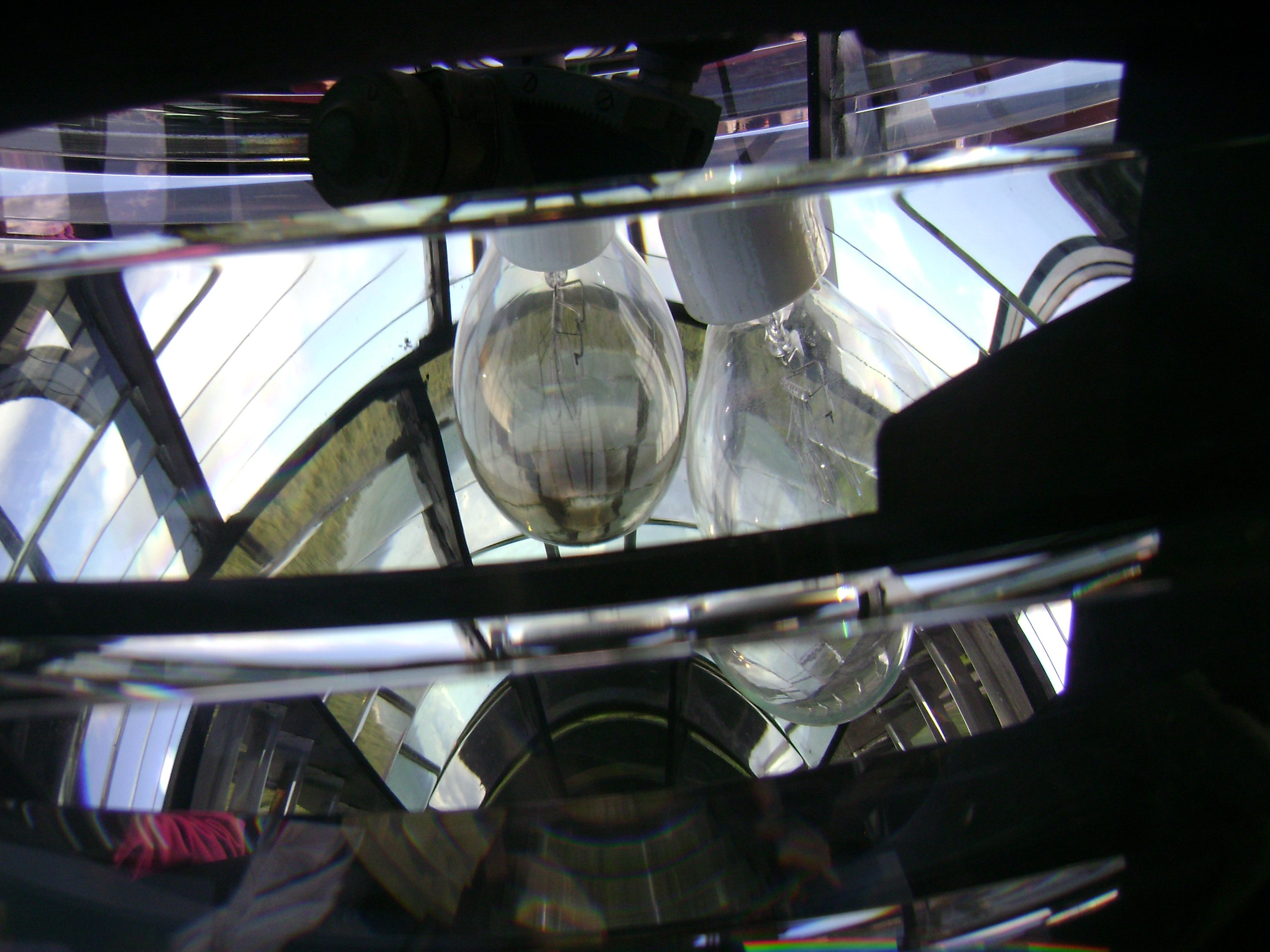 Optical device in a lighthouse in Hel.